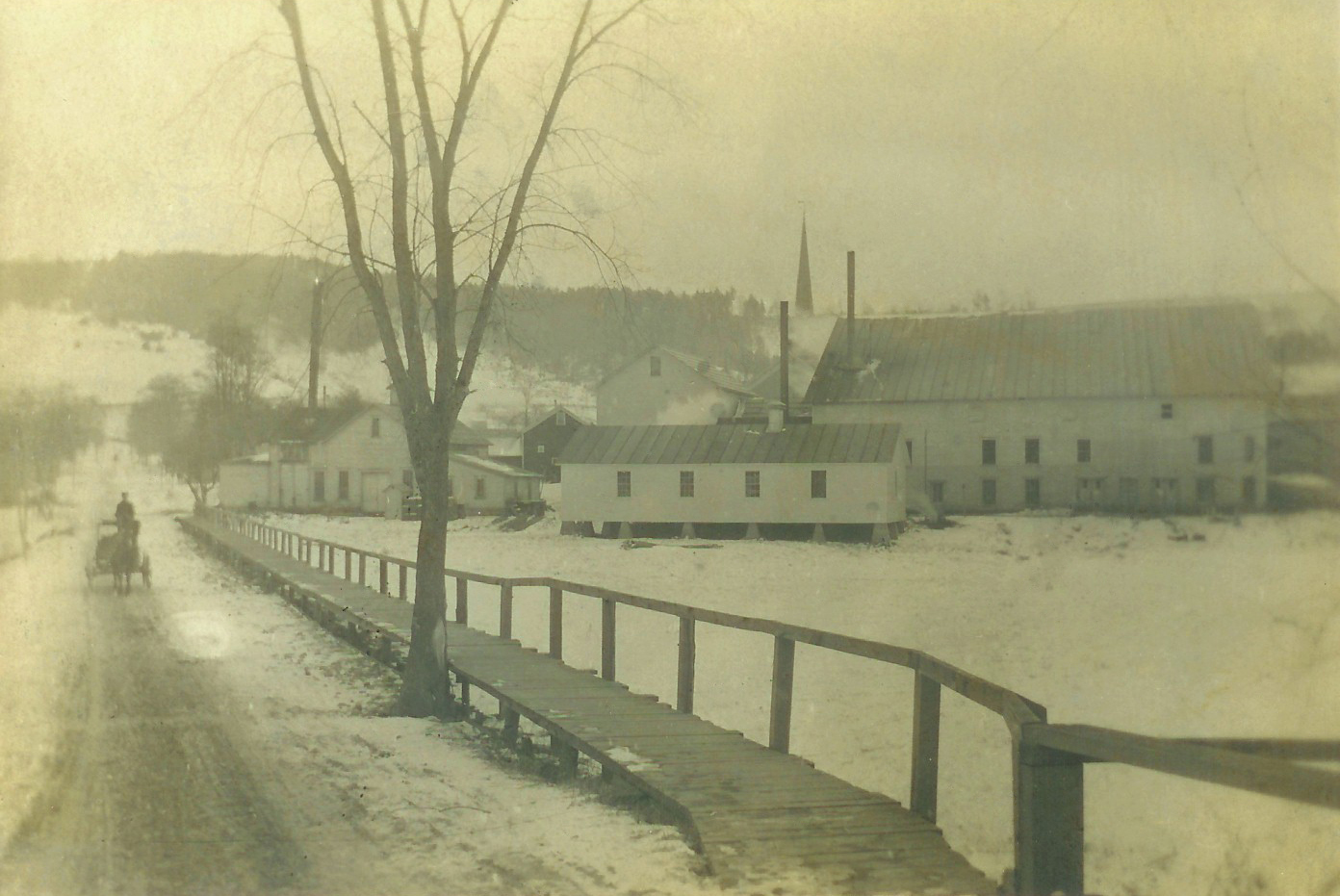 This image is part of the wikisource:en:History of Edmeston, New York documents and was provided by the Edmeston Museum in Edmeston, New York